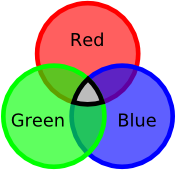 File:Quark Colors.svg by User:Wierdw123, in PNG format.